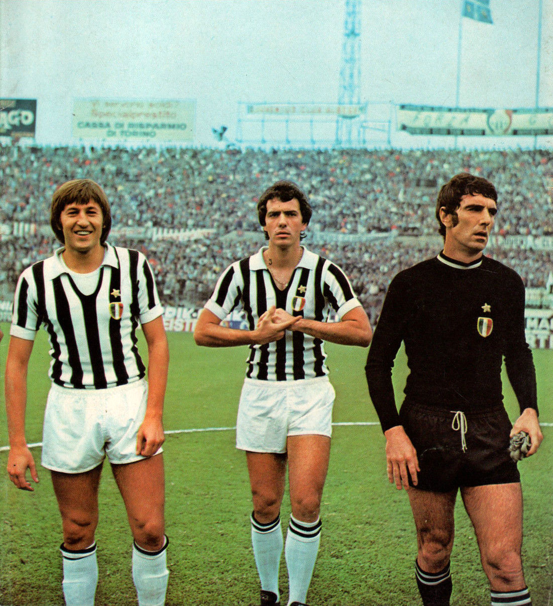 From left to right: Juventus F.C. players Gianpietro Marchetti, Roberto Bettega and Dino Zoff before a match at Communal Stadium in Turin, Italy.